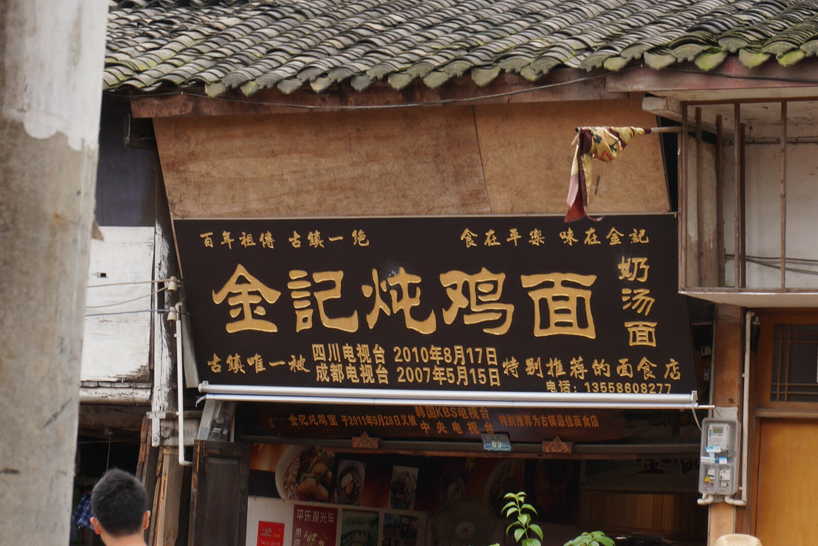 A shop sign in the PRC.The Chinses on it mixes Simplifed Chinese and Trditional Chinese